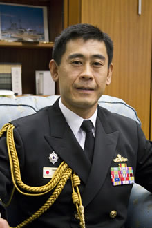 Captain Atsushi Minami (JMSDF), defence attaché of Japan to the United Kingdom.